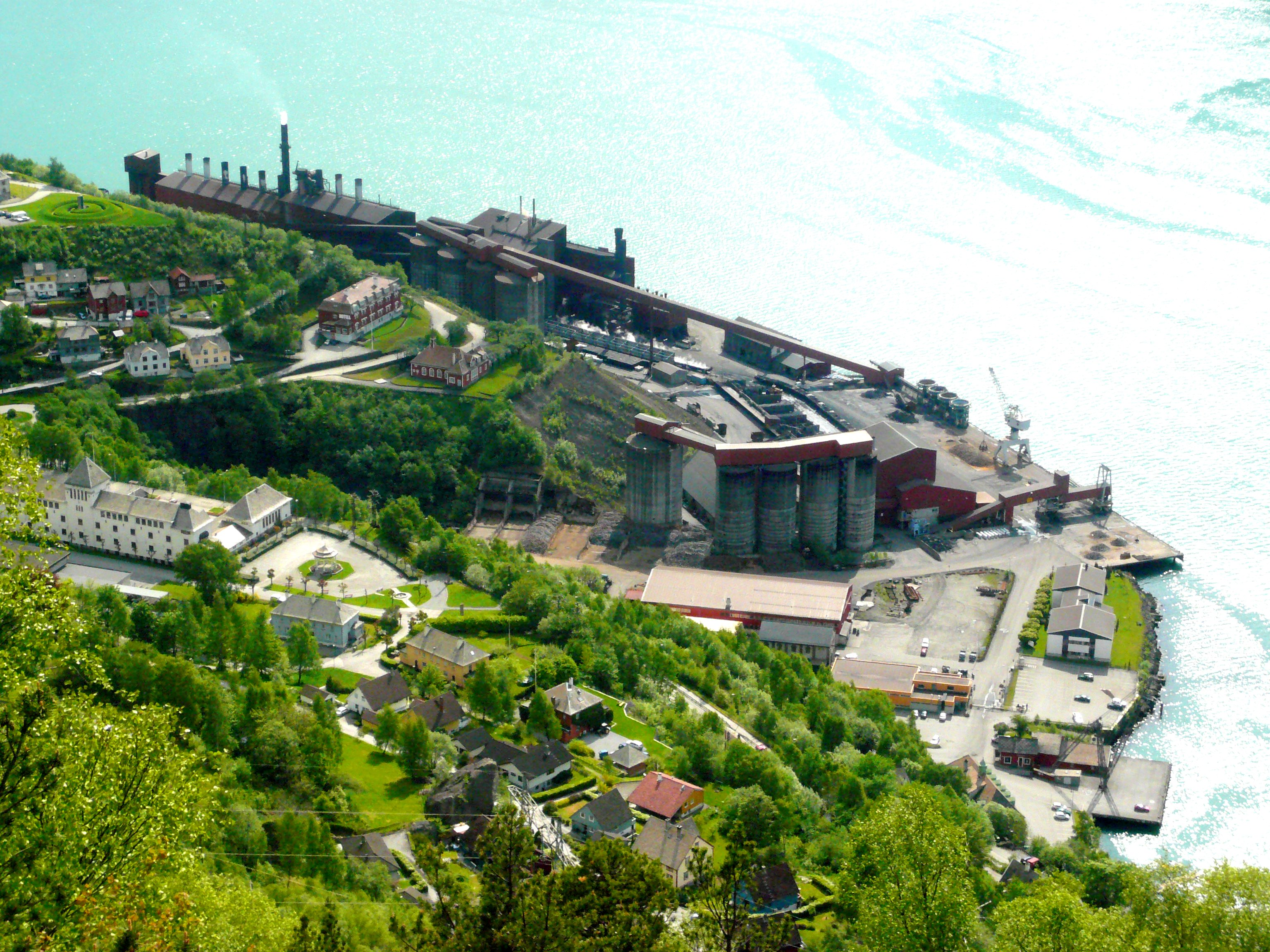 Eramet Titanium & Iron AS, Tyssedal, Norway